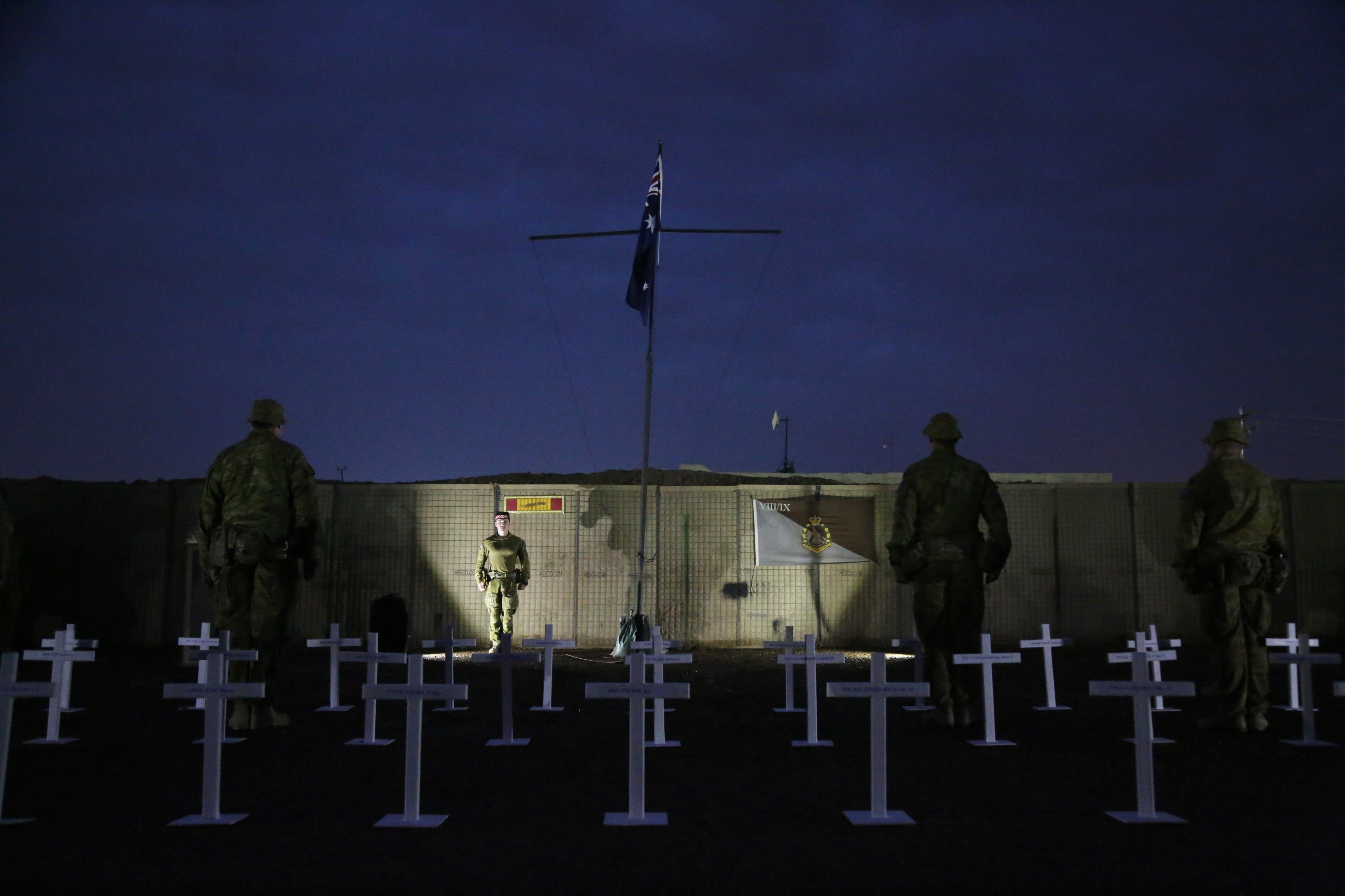 Australian soldiers from the 8th and 9th Battalion, Royal Australian Regiment, commemorate the battles of Long Hai Hills, Vietnam, during a remembrance ceremony held at Camp Taji, Iraq, Feb. 28, 2016. The 8th Battalion, Royal Australian Regiment, received the Vietnam Gallantry Cross Unit Citation as a result from one of the battles in 1970. Camp Taji is one of five Combined Joint Task Force – Operation Inherent Resolve building partner capacity locations dedicated to training Iraqi Security Forces. (U.S. Army photo by Sgt. Kalie Jones/Released) Unit: Combined Joint Task Force - Operation Inherent Resolve